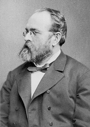 German composer Josef Gabriel Rheinberger (1839–1901)